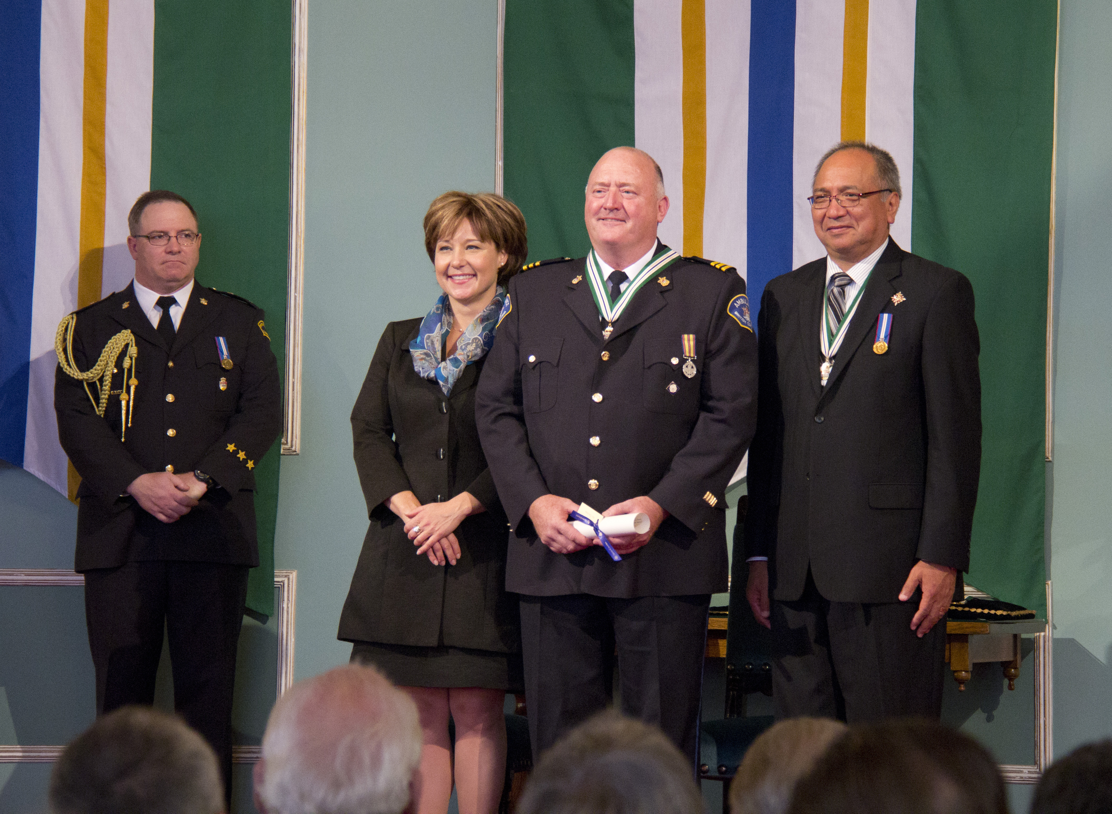 Tim Jones receives his Order of BC from Premier Christy Clark